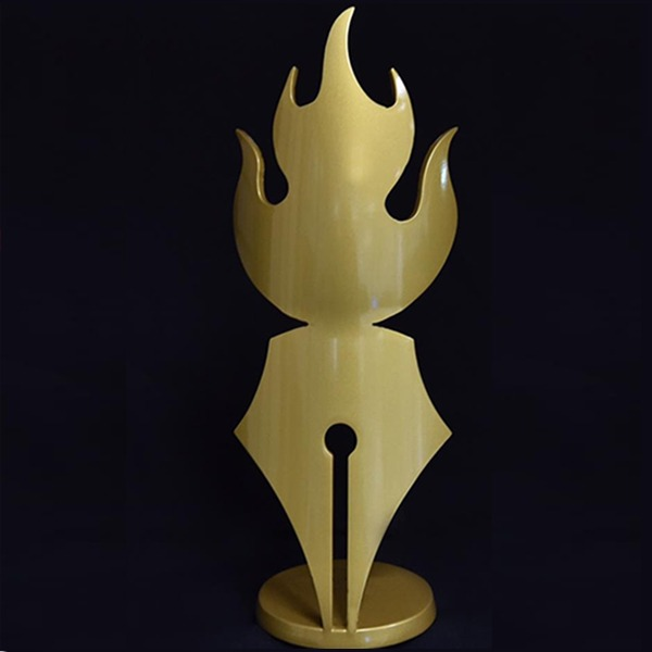 The "News Flame" Award is an annual award to encourage Gulf drama by appreciating creative and artistic excellence. It was launched in 2018